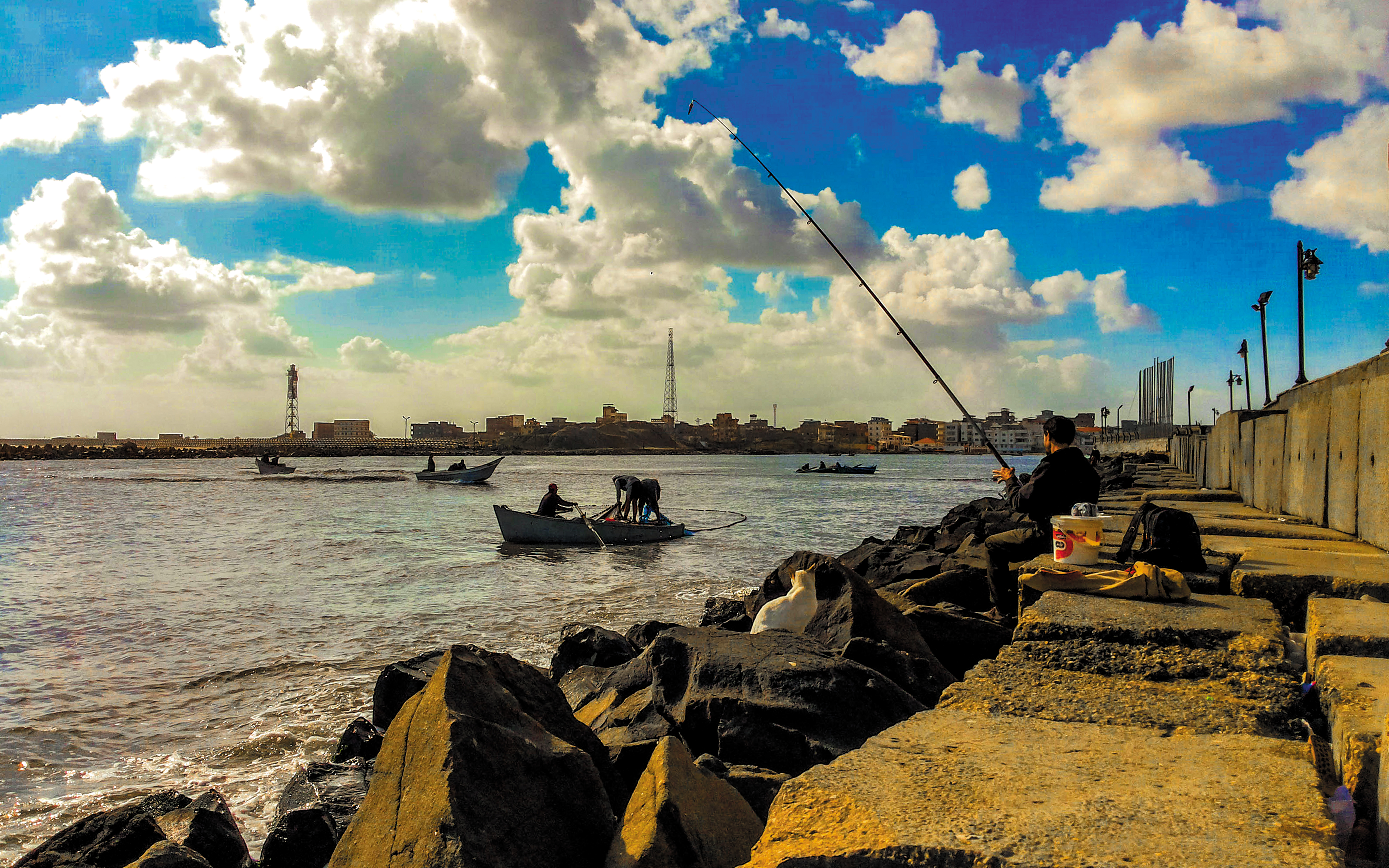 The profession of fishing is one of the most important occupations characterized by the city of Ezbet al-Barah, which owns 65% of the Egyptian marine fleet and is a major source of food security in the province Damietta The city of Izbet al-Burj is a city located opposite Ras al-Bar at the end of the Nile River, north of Damietta city About 15 km on the West Bank This is an image of "African people at work" from Egypt